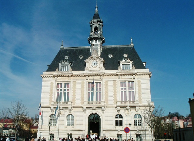 Corbeil-Essonnes town hall